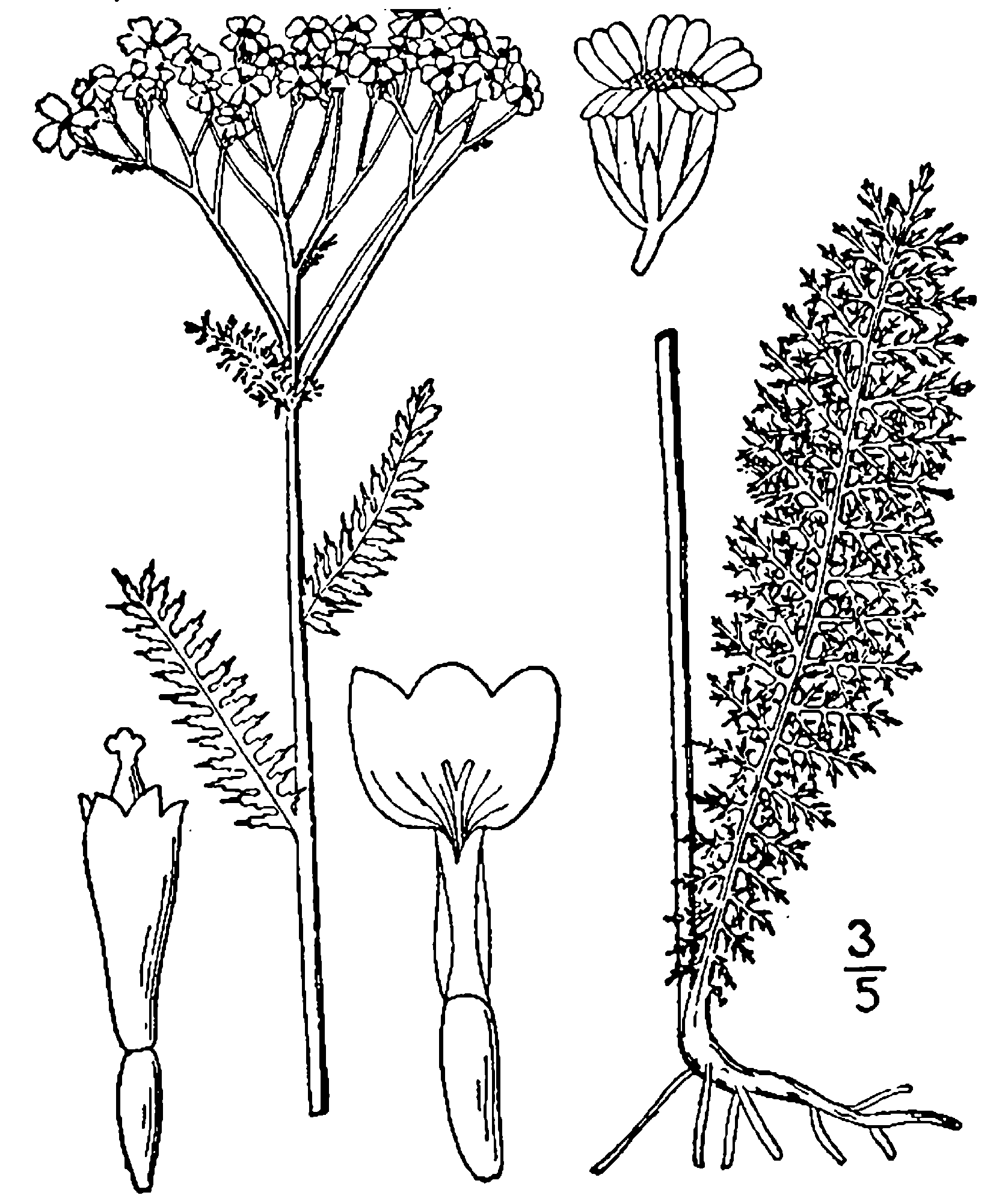 Common Yarrow. Drawing.